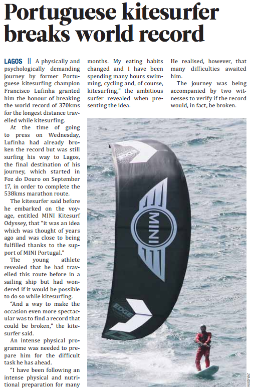 News about Francisco's Record